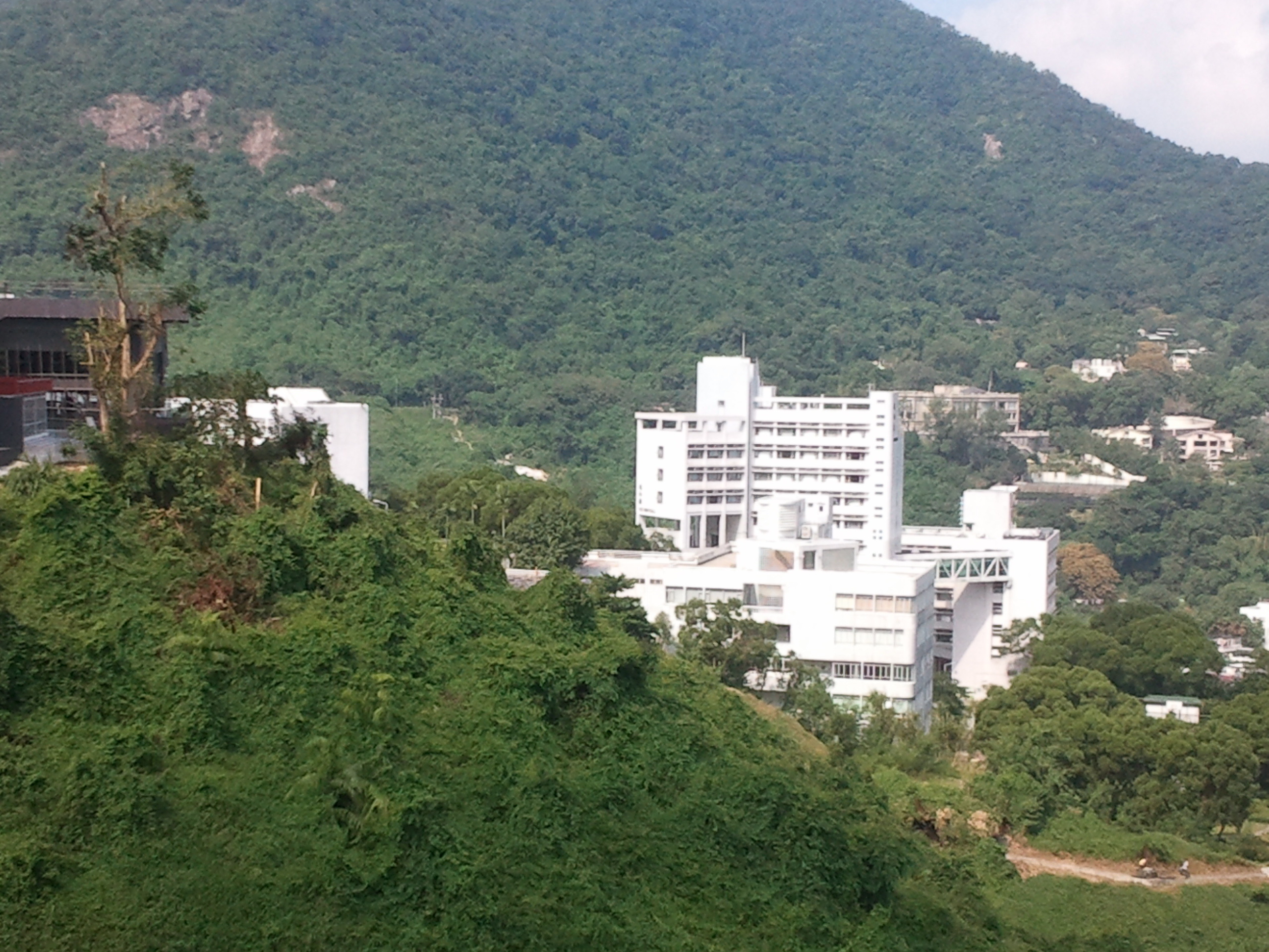 Shaw College overview